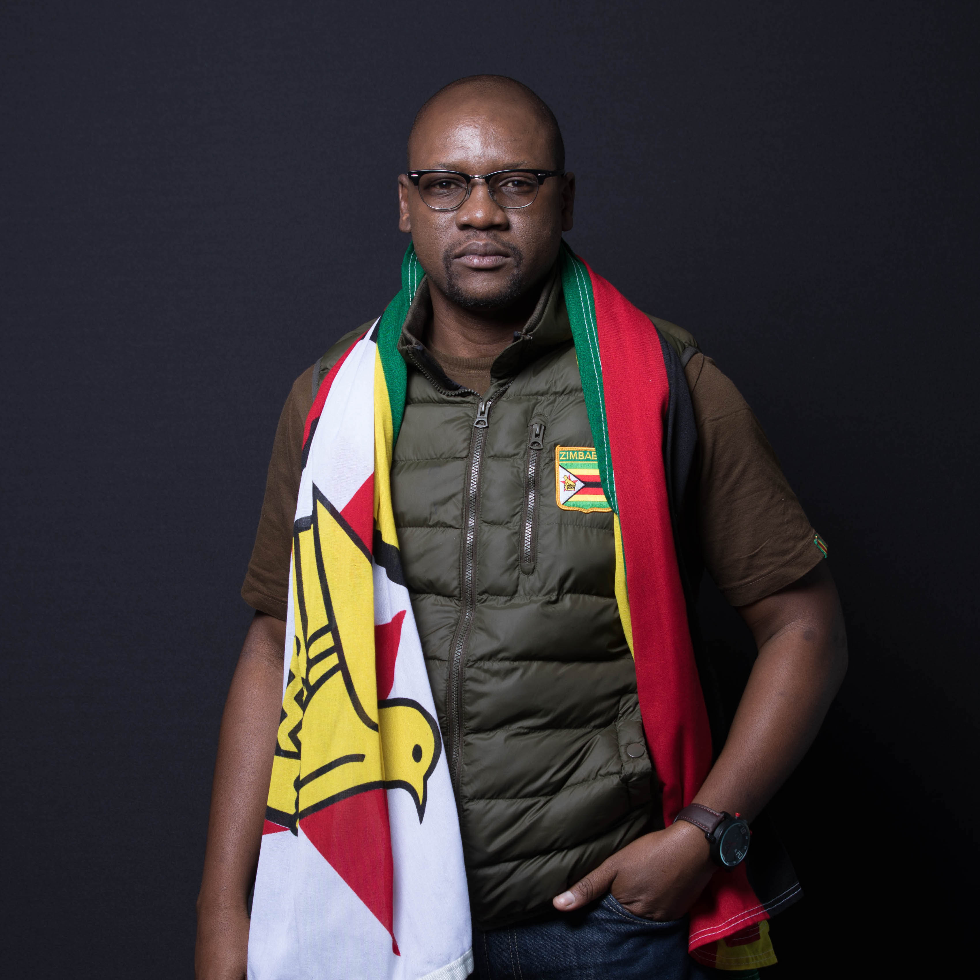 Evan Mawarire is a civil rights activist, pastor, and leader of the #ThisFlag movement in Zimbabwe, which resulted in mass protests against the Mugabe regime that shut down the capital and other major cities.